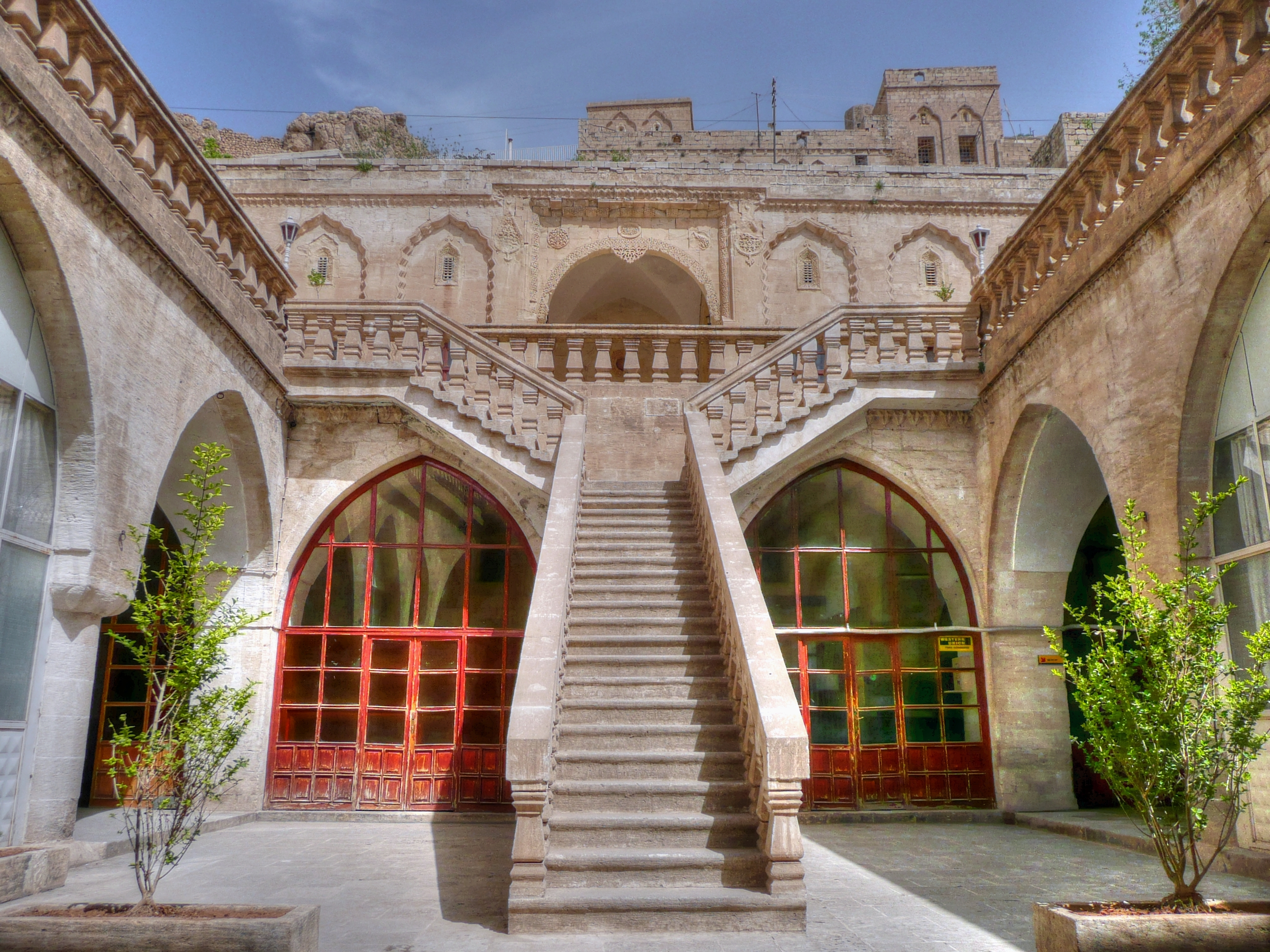 Mardin post office building. Photographs from Mardin, Turkey